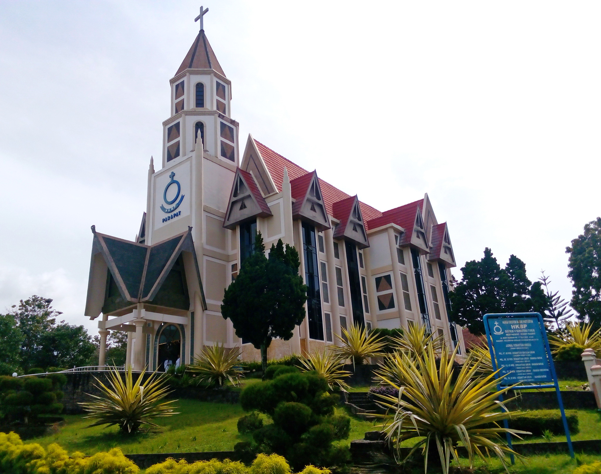 HKBP Church in Parapat, Girsang Sipangan Bolon, Simalungun.